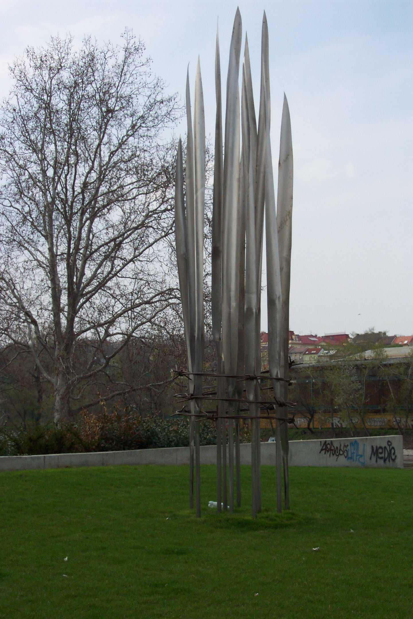 Memorial to colectiviziation in 1950s in Prague